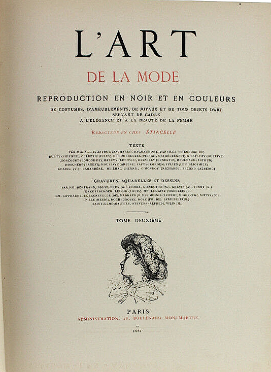 Title page for L'Art de la mode volume 2, published in Paris.